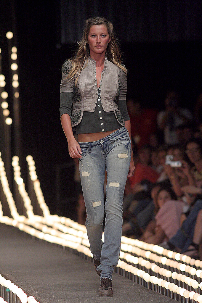 Brazilian model Gisele Bündchen at the Fashion Rio Inverno 2006.